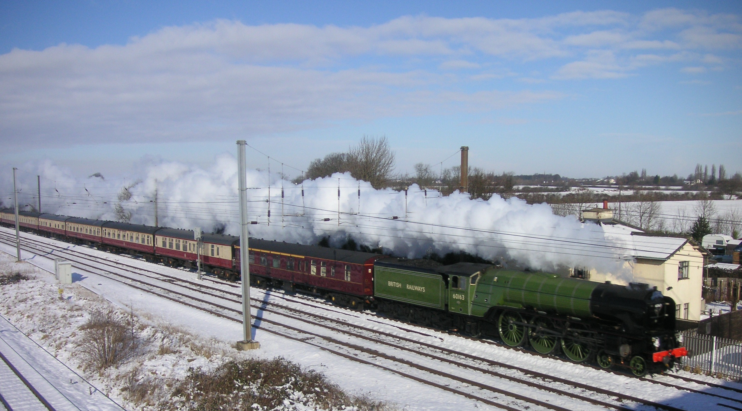 60163 Tornado at speed near Peterborough on 7 February 2009